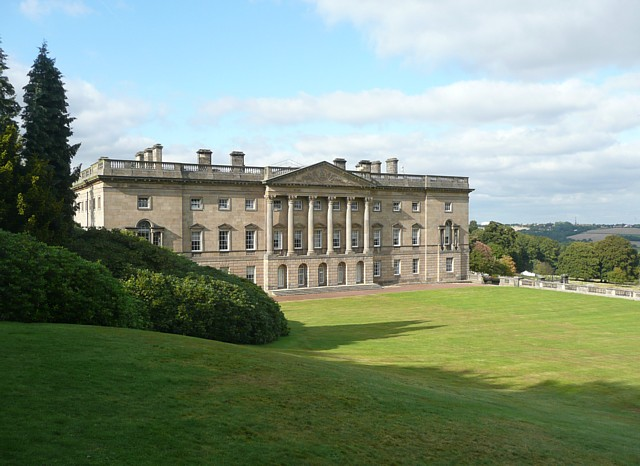 Wentworth Castle, Stainborough The huge mansion is in the form of a hollow square. The north range is the oldest, built c.1670. The east range was added c.1710, and the south and west ranges c.1760-5. This is the south range, described by Pevsner as being "purely English in its dignified and restrained Palladianism. It was designed by Charles Ross of London.".